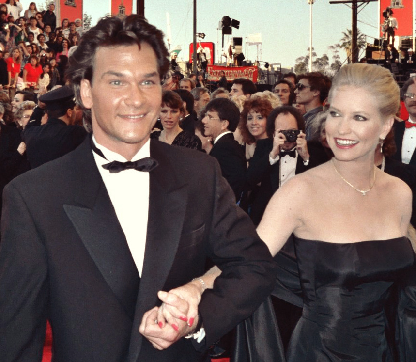 Patrick Swayze and his wife, Lisa Niemi on the red carpet at the 1989 Academy Awards, March 29, 1989.